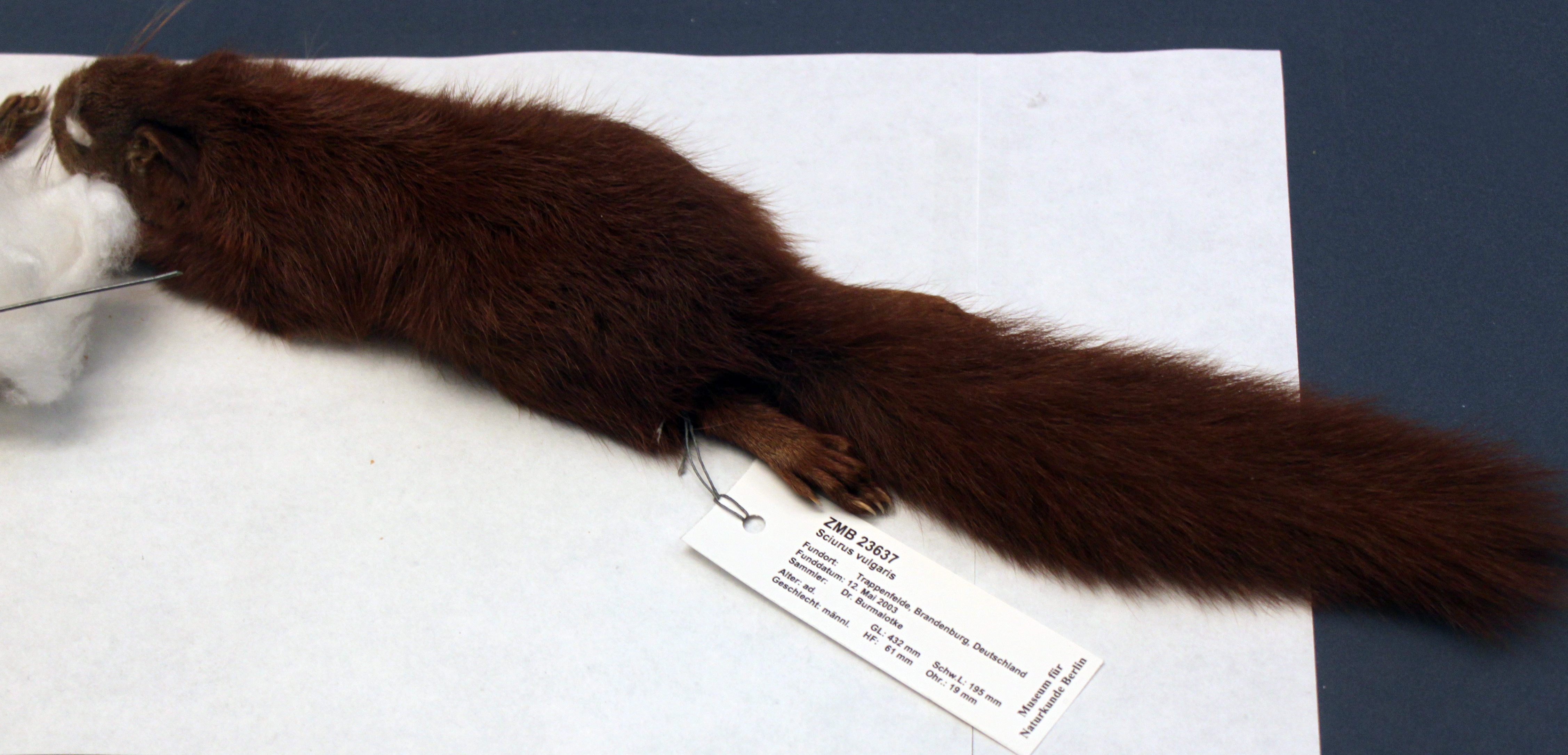 Showcase at the Natural History Museum Berlin: Taxidermy of a squirrel (Sciurus vulgaris). Third step: Completion of the skin: After drying, the skin is provided with the final label. It contains the inventory number, the scientific name of the animal as well as indications of origin and extent.